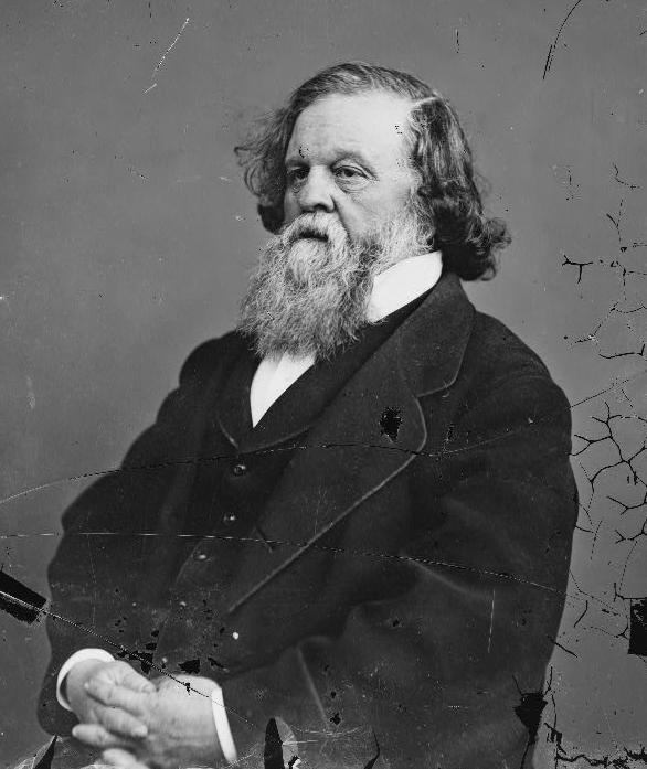 Georgia politician Howell Cobb